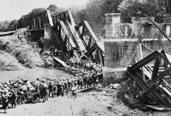 JAPANESE TROOPS CROSS A RIVER, IN THE LABIS AREA, BY MEANS OF AN IMPROVISED FOOT BRIDGE. ALONGSIDE IS AN IRON BRIDGE WHICH WAS DESTROYED DURING THE BRITISH WITHDRAWAL DOWN THE MALAYAN PENINSULA.